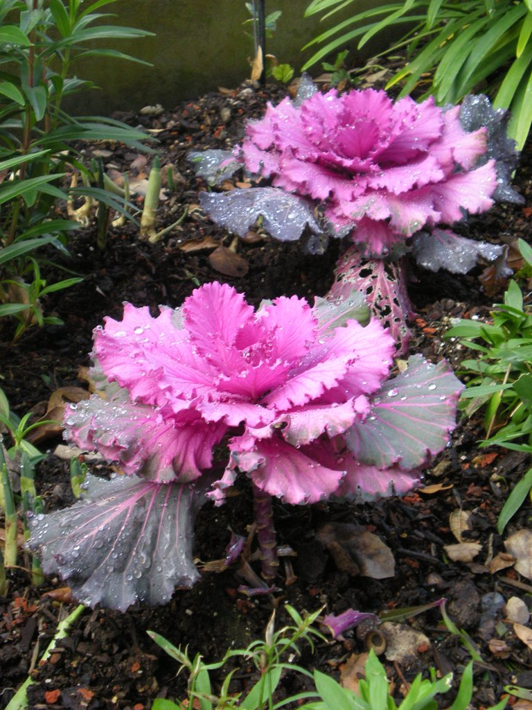 Ornamental kale in Napa, California